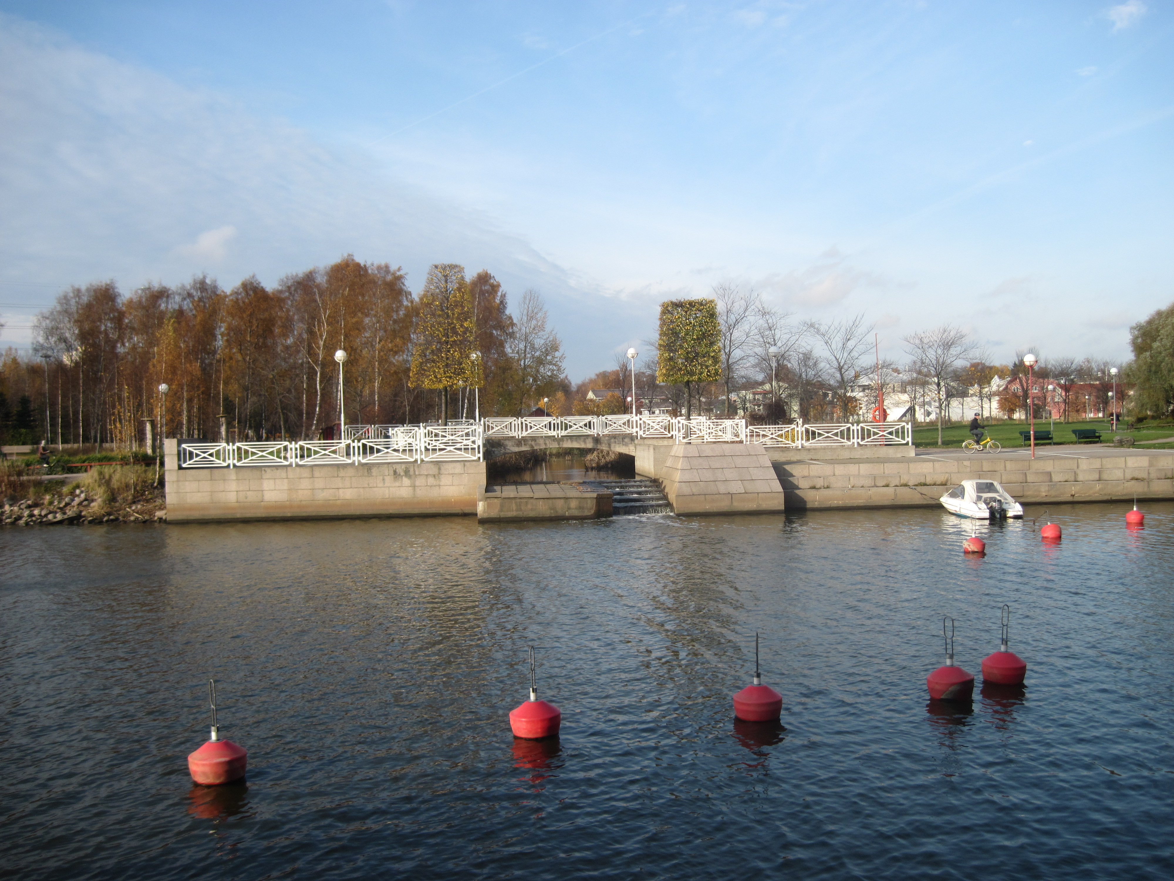 Dam and bridge at the mouth of Haaganpuro in Helsinki